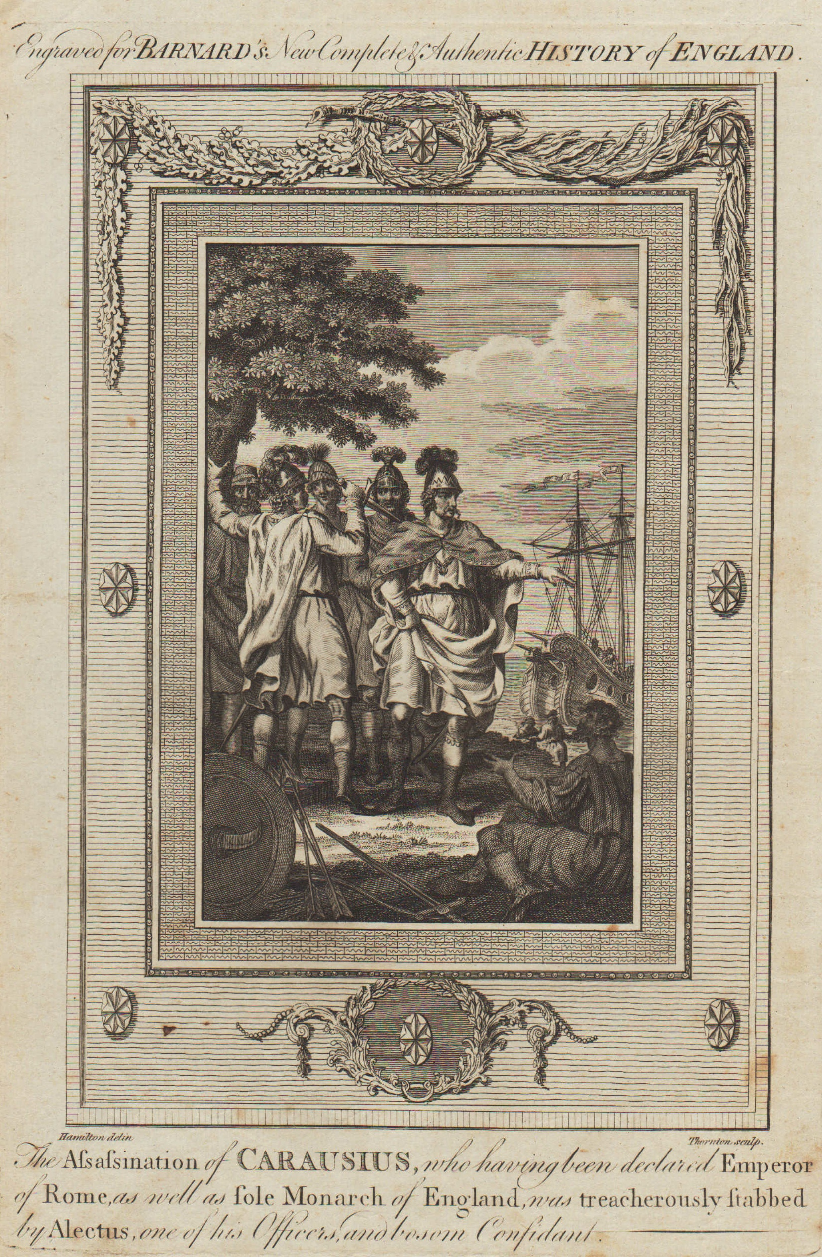 William Hamilton. “The Assassination of Carausius, who having been declared Emperor of Rome, as well as sole Monarch of England, was treacherously stabbed by Alectus, one of his Officers, and bosom Confidant.”.” From Barnard’s New Complete and Authentic History of England. London: Edward Barnard, 1781-83.